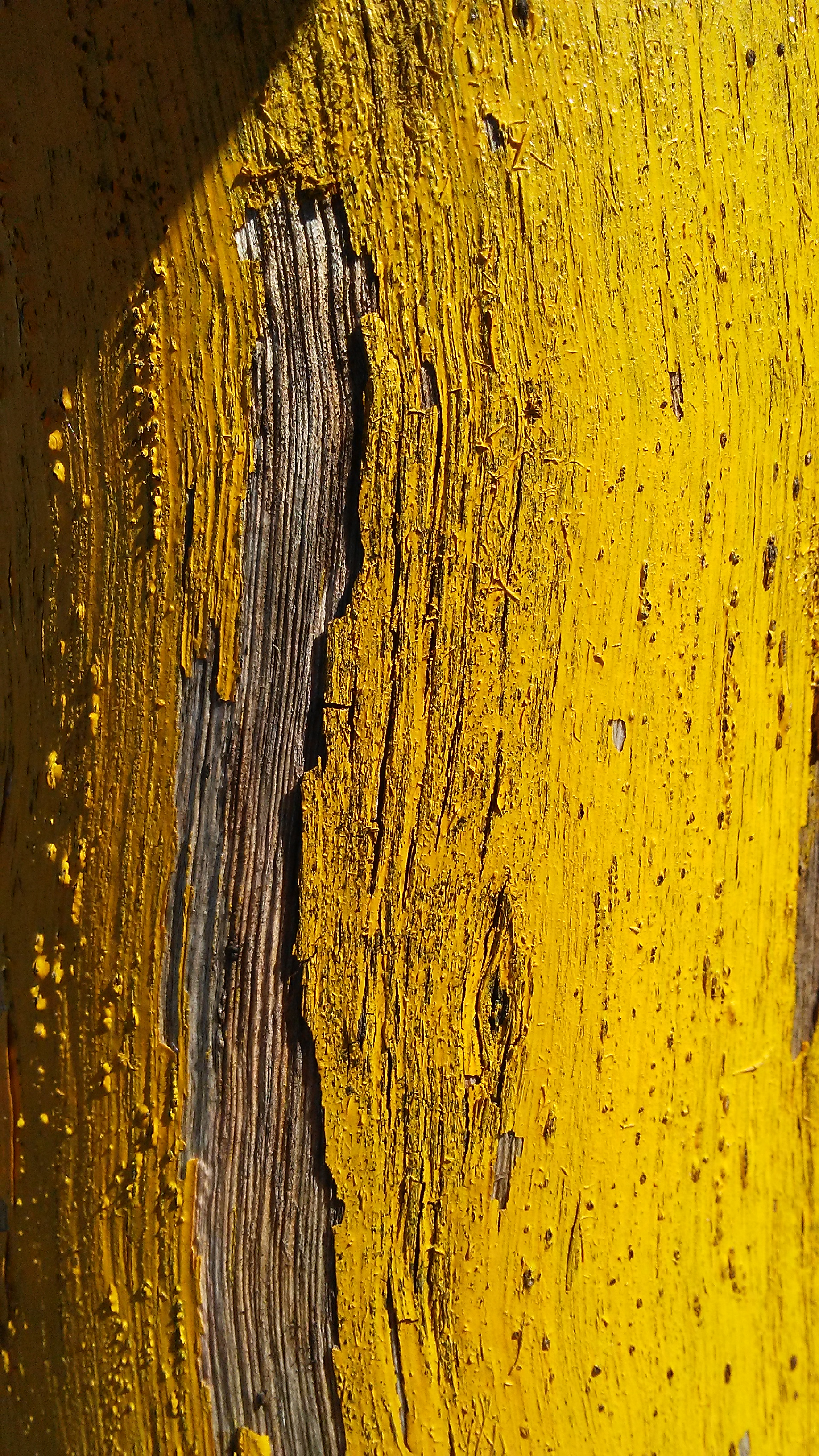 yellow lined wood